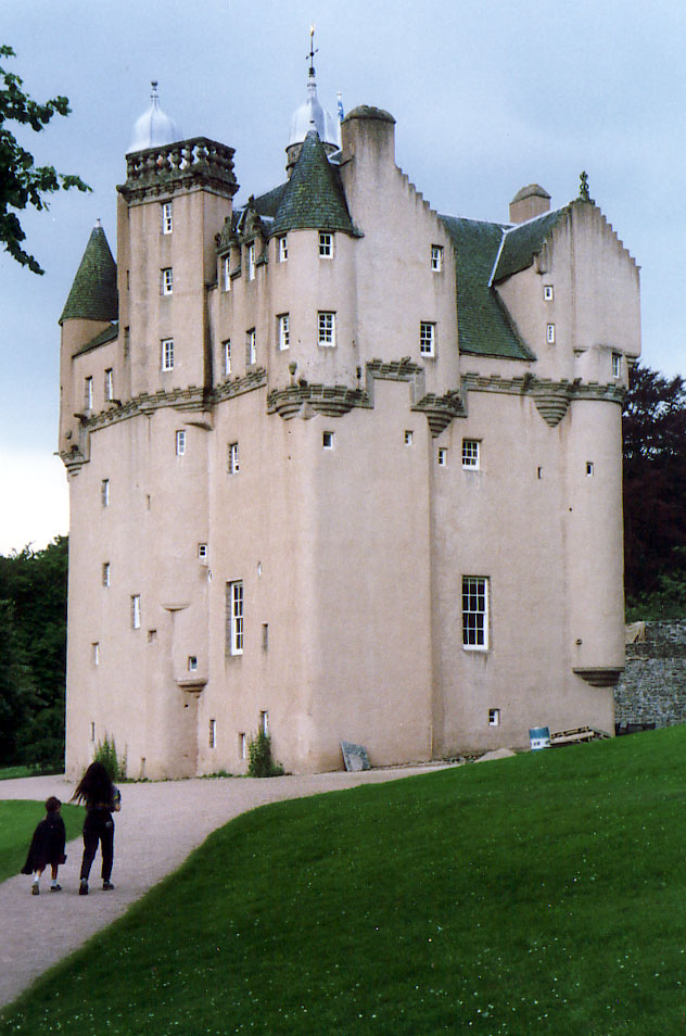 Craigievar Castle, an archetypical Scottish Tower house near Aberdeen, photograph taken 1991 by Dave souza